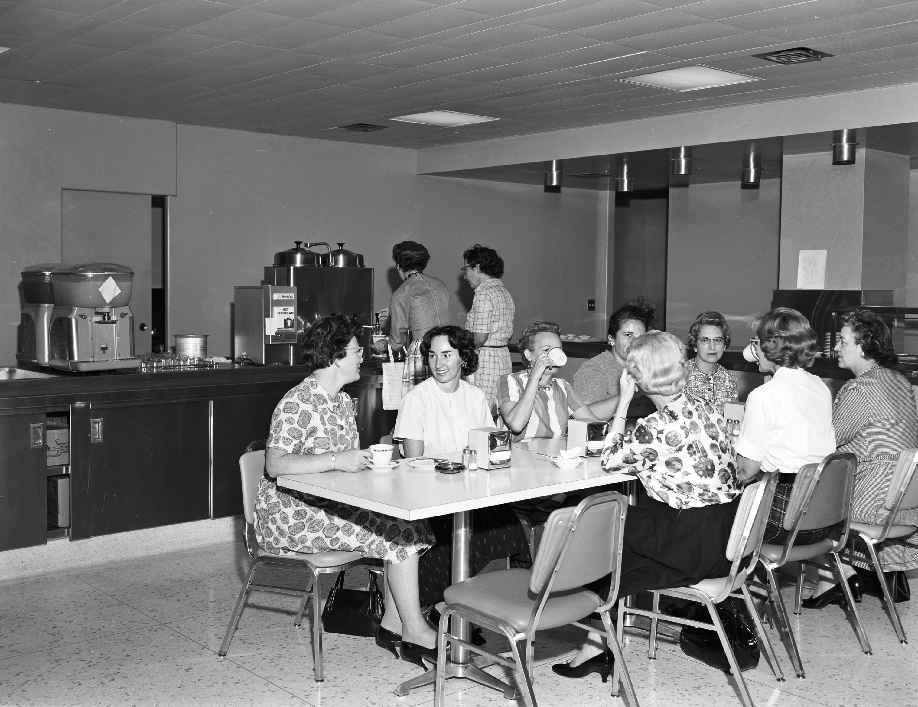 Seattle City Light employees on coffee break in the old Municipal Building, 1960s. Item 165636, City Light Photographic Negatives (Record Series 1204-01), Seattle Municipal Archives.